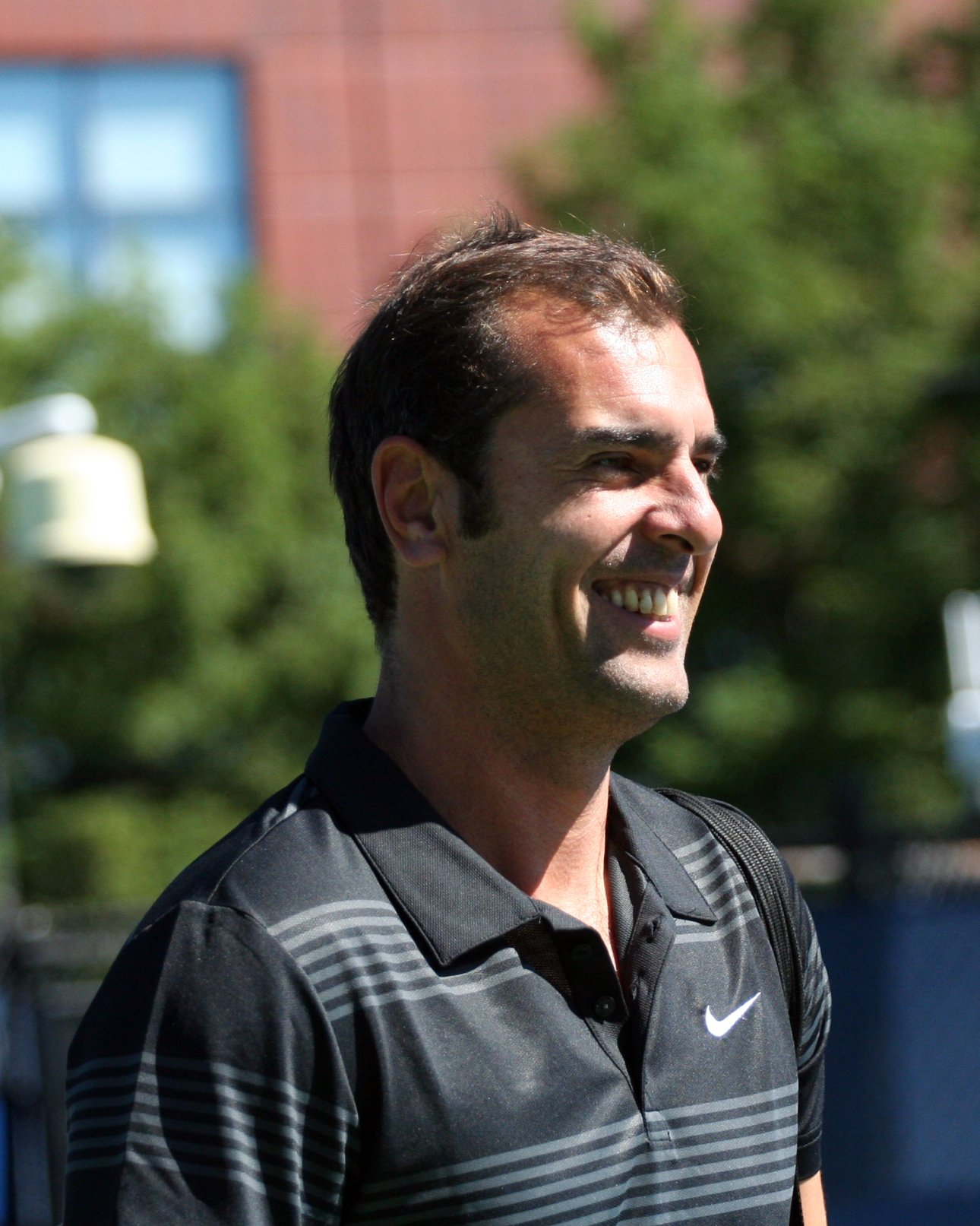 U.S. Open Champions Team Tennis Sept. 11, 2010